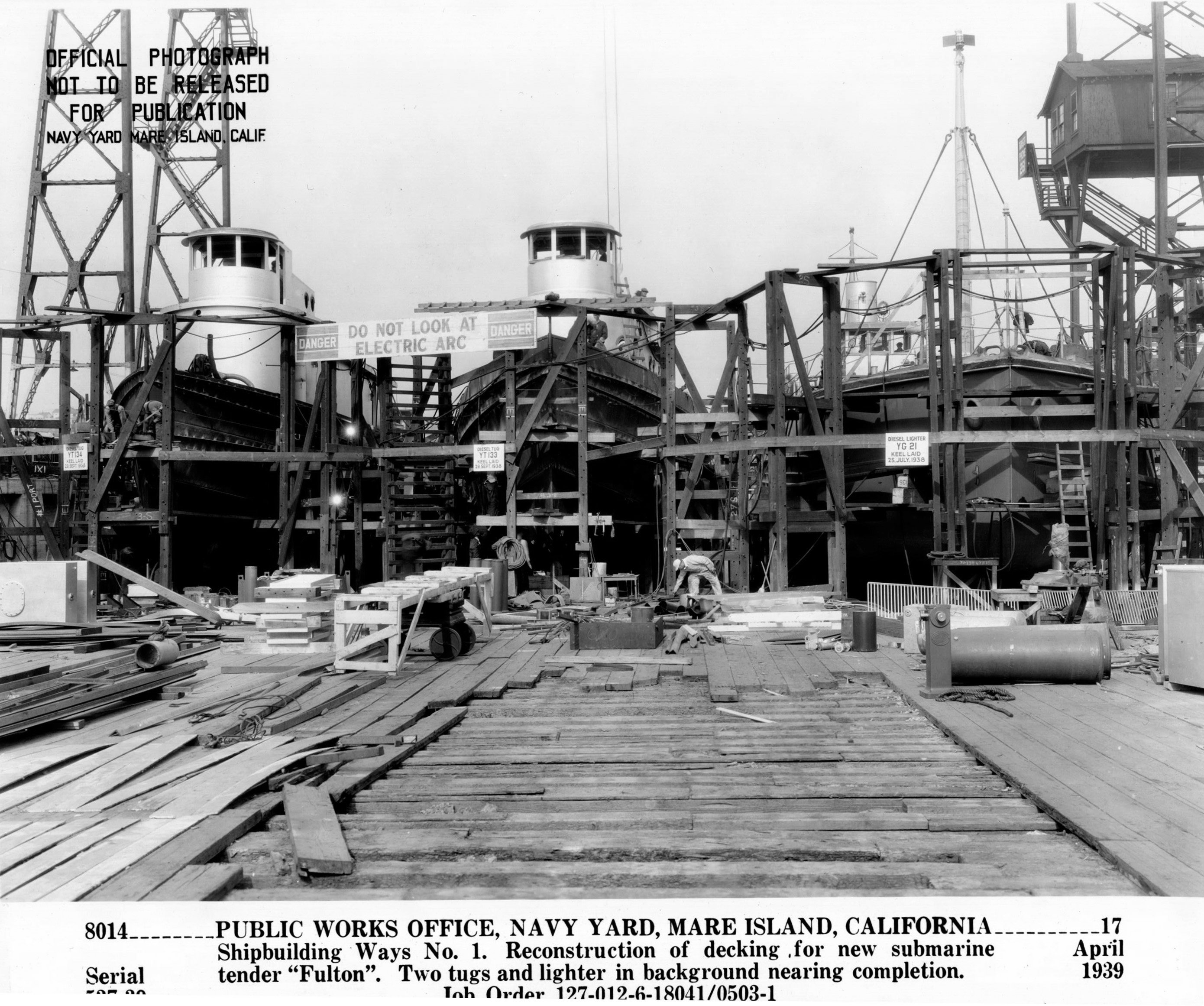 From left to right; Wahneta (YT-134), Narkeeta (YT-133) and Self-propelled Garbage Lighter YG-21. at the end of building ways # 1 at Mare Island Navy Yard, April 17, 1939. All three of these vessels were launched, 4 May 1939. US Navy photo